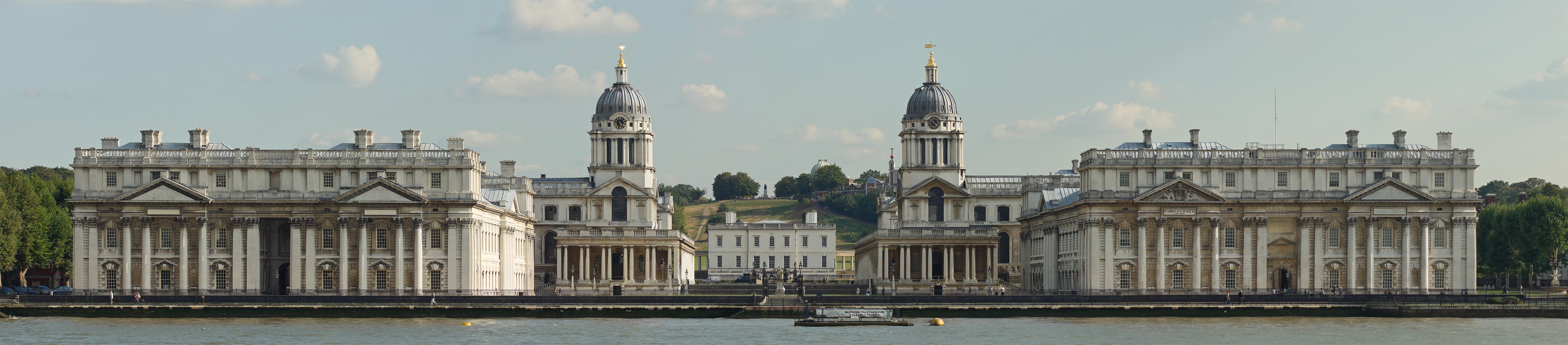 A 12 image panorama of the Old Royal Naval College, viewed from the north side of the Thames river. The Queen's House in the middle of the picture. The Royal Observatory is visible in the background. Details: ISO: 100 Modifications: Crop, shadow/highlight, deconvolution. Photographer: Bill Bertram